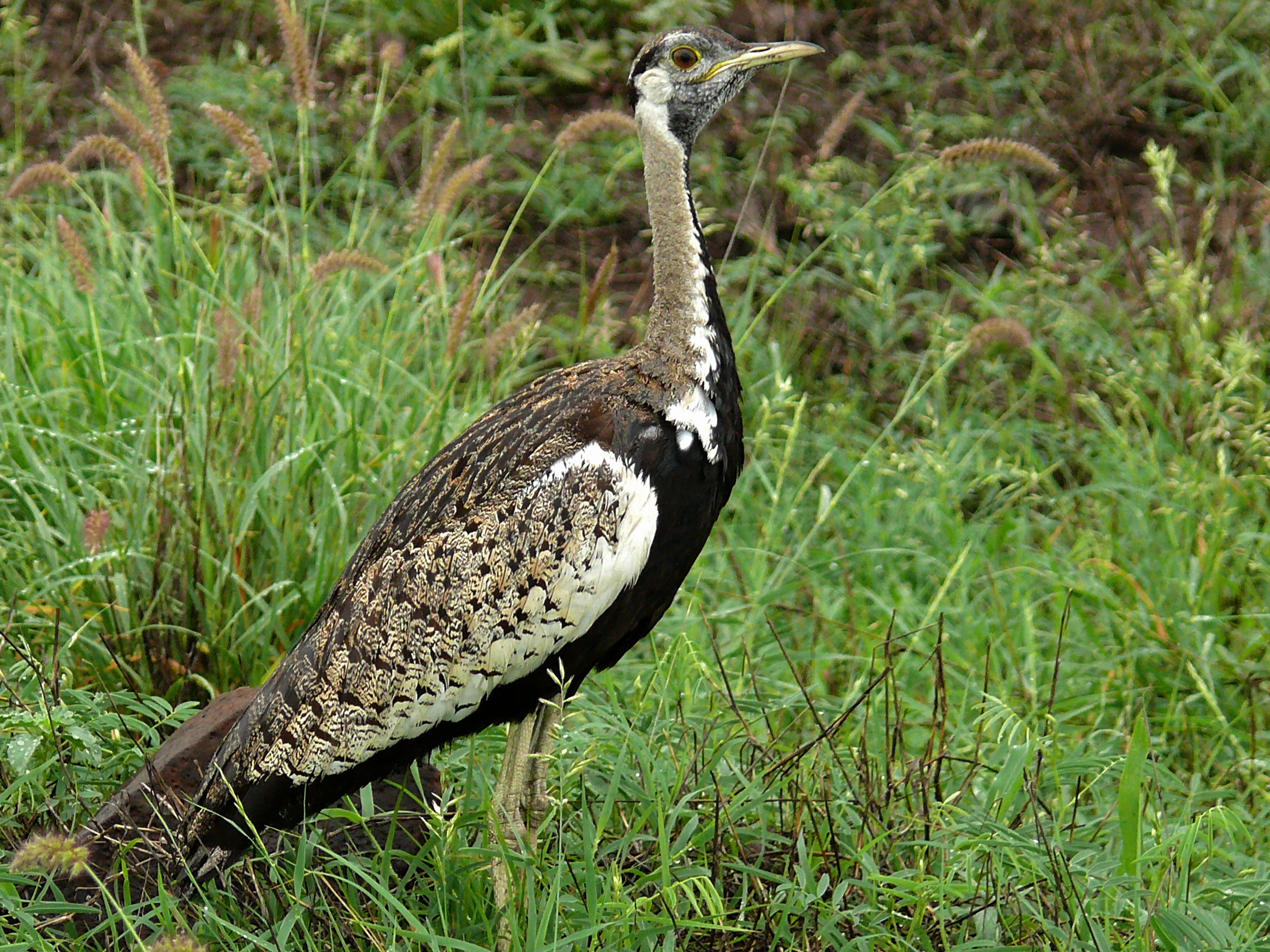 H1-6 South of Mopani, Kruger NP, SOUTH AFRICA